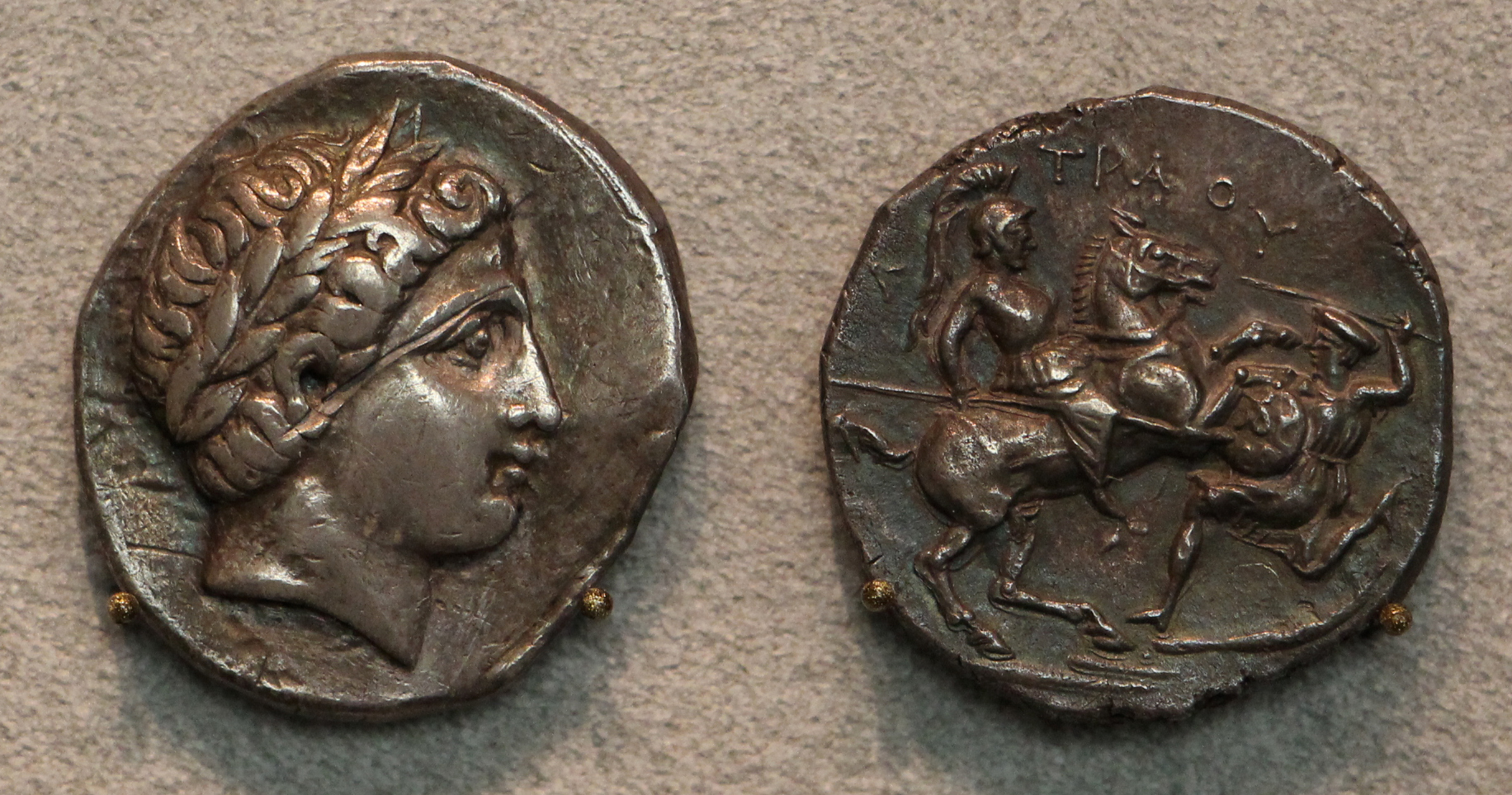 Ancient Greek coins in the Altes Museum Berlin